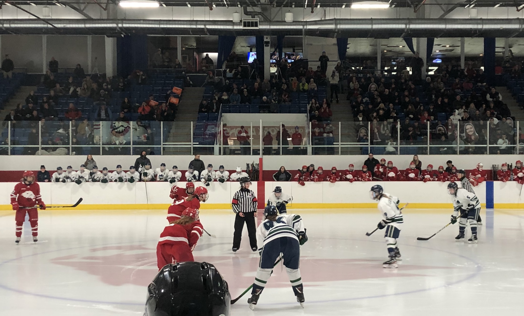 The OUA women’s ice hockey semi-final with the York Lions hosting the Nipissing Lakers in game 2 of the series.